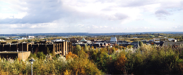 Telford Townscape 2 A view across the Telford Centre skyline, the dark brick building, left of centre is Mallingsgate Police Station. The grey 'pyramids' are part of the roof of the Telford Shopping Centre. Taken from the H.M. Land Registry offices, 'Parkside Court'.